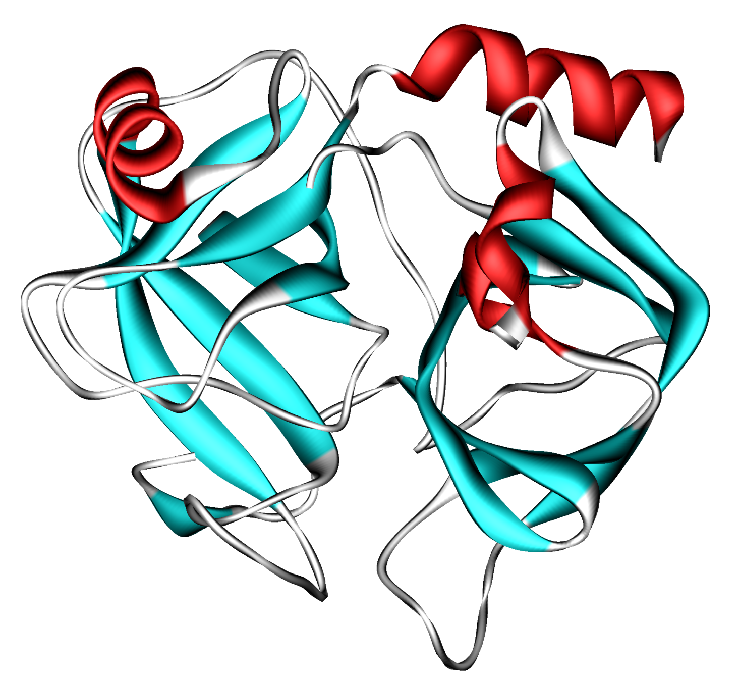 3d ribbon model of kallikrein-1 (KLK-1) from PDB 1SPJ. Ref.: G.Laxmikanthan et al. (2005). 1.70 A X-ray structure of human apo kallikrein 1: structural changes upon peptide inhibitor/substrate binding.. Proteins, 58, 802-814. PMID 15651049 [